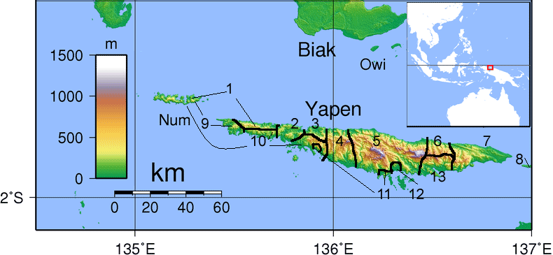 Languages of Yapen (based on (A) = Austronesian, (P) = Papuan Pom (A) Marau (A) Munggi (A) Busami (A) Yawa (P) Biak (A) Wabo (A) Kurudu (A) Woi (A) Ansus (A) Serui-Laut & Papuma (A) Saweru (P) Ambai (A)